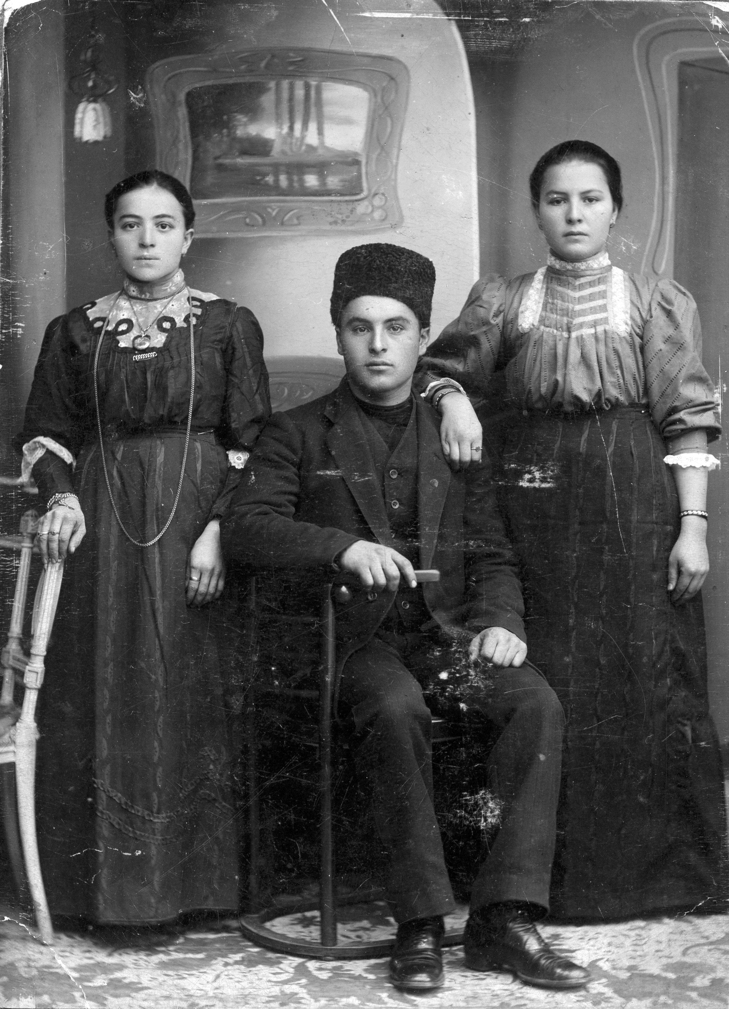 Edvard Chubaryan 75th Birthday, 05 May 2011 05, No. 08